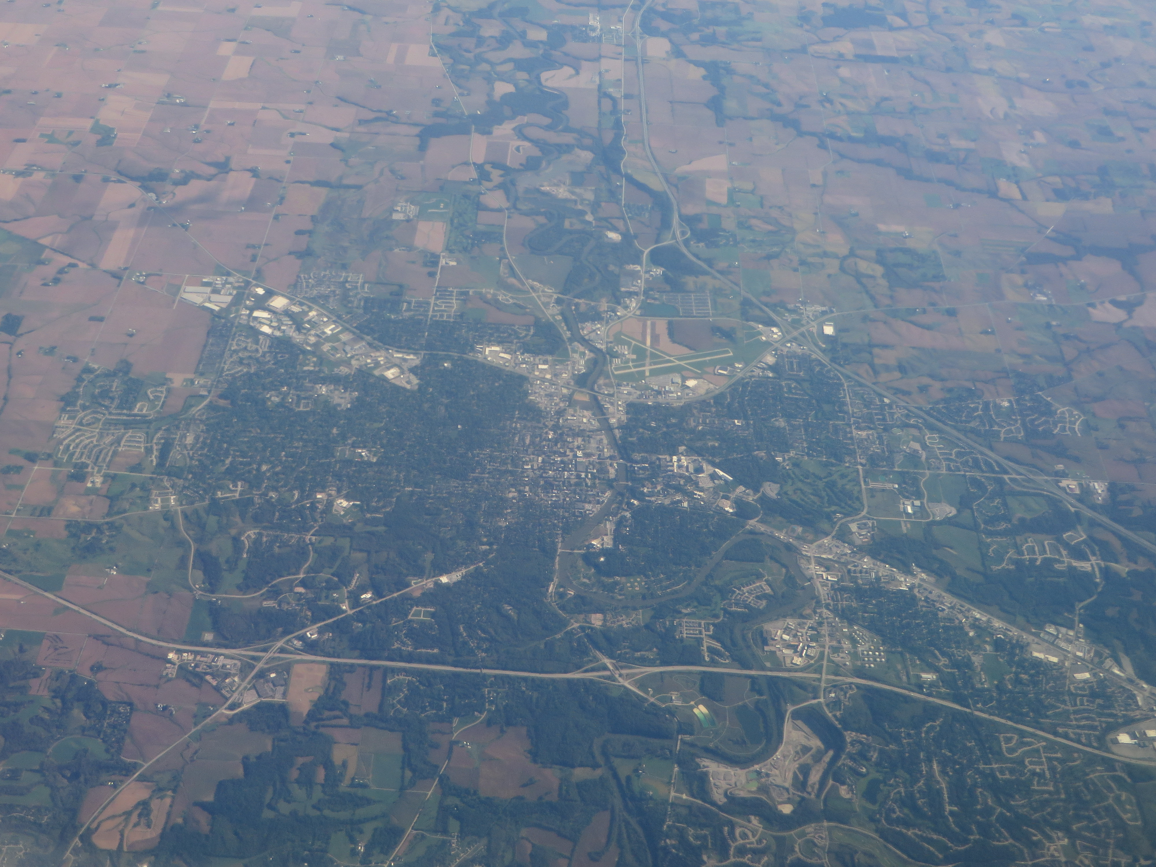 Iowa City is a city in Johnson County, Iowa, United States. It is the only City of Literature in North America, as awarded by UNESCO in 2008. As of the 2010 Census, the city had a total population of about 67,862. The U.S. Census Bureau estimated the 2015 population at 74,220, making it the fifth-largest city in the state. Iowa City is the county seat of Johnson County and home to the University of Iowa. Iowa City is adjacent to the town of Coralville and surrounds the town of University Heights, with which it forms a contiguous urban area. Iowa City is the principal city of the Iowa City Metropolitan Statistical Area, which encompasses Johnson County and Washington County and has a population of over 164,000. Iowa City was the second capital of the Iowa Territory and the first capital city of the State of Iowa. The Old Capitol building is a National Historic Landmark in the center of the University of Iowa campus. The University of Iowa Art Museum and Plum Grove, the home of the first Governor of Iowa, are also tourist attractions. In 2008, Forbes magazine named Iowa City the second-best small metropolitan area for doing business in the United States. Iowa City is located along the Iowa River. Iowa City is home to the University of Iowa Hospitals and Clinics (UIHC), the state's only comprehensive tertiary care medical center. The Holden Comprehensive Cancer Center in Iowa City is an NCI-designated Cancer Center, one of fewer than 60 in the country. ACT college testing services is headquartered in Iowa City. In 2004, Forbes magazine named Iowa City the third Best Small Metropolitan Area in the United States. Iowa City is home of the University of Iowa's athletic teams, known as the Iowa Hawkeyes. A member of the Big Ten Conference, the football team plays at Kinnick Stadium, while men's and women's basketball, volleyball, and the wrestling and gymnastics teams compete at Carver-Hawkeye Arena.